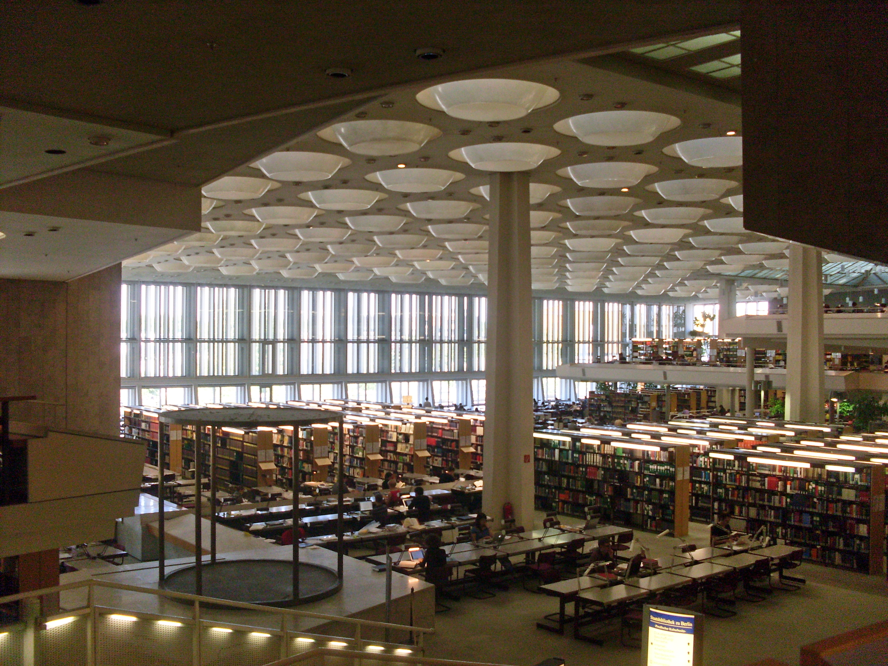 Berlin State Library, Haus Potsdamer Straße